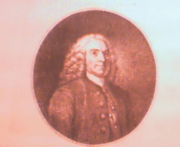 Portrait of 18th century singer Bernard Gates